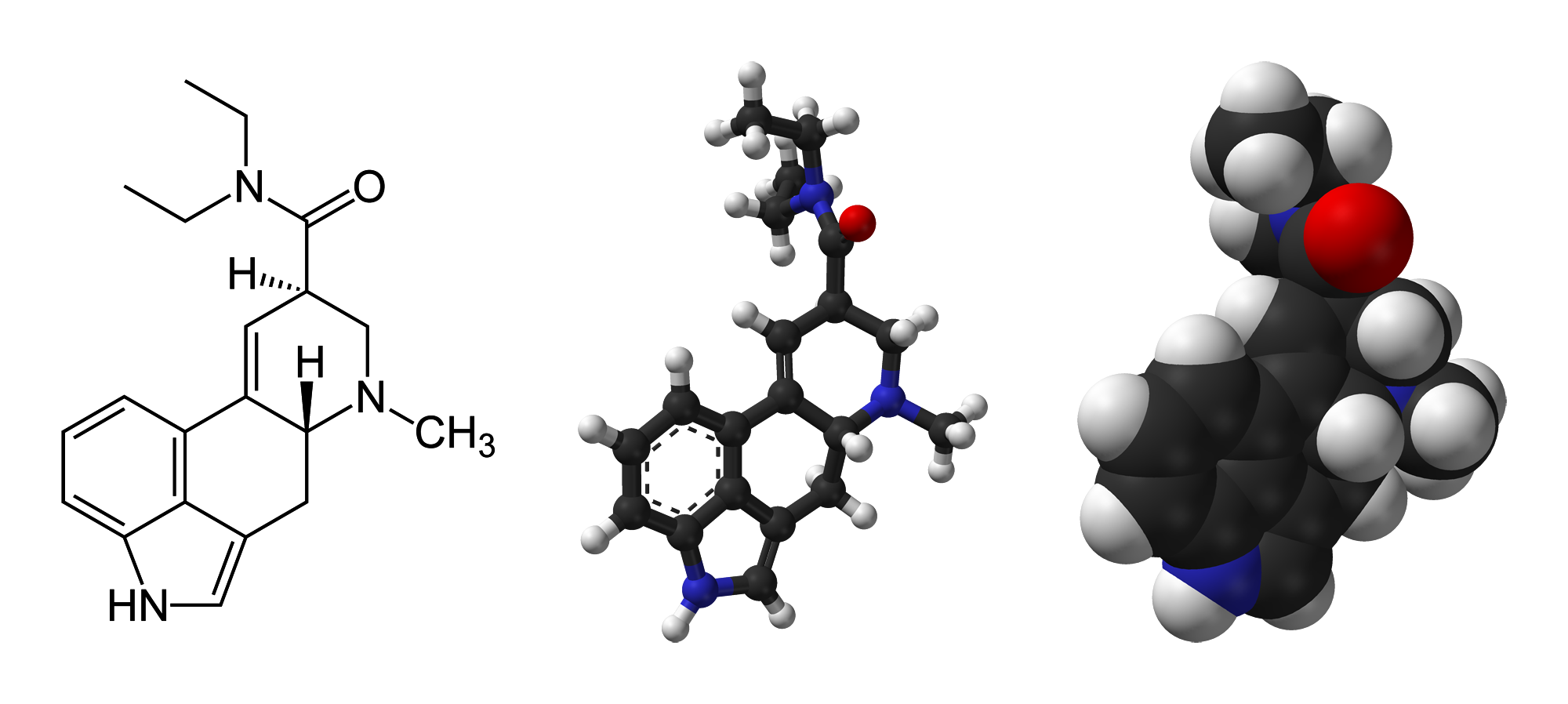 Skeletal formula and ball-and-stick and space-filling models of the lysergic acid diethylamide (LSD) molecule, C20H25N3O. Colour code: Carbon, C: grey-black Hydrogen, H: white Nitrogen, N: blue Oxygen, O: red Structure based on that found in the related salt LSD o-iodobenzoate monohydrate, determined by X-ray crystallography in Molecular Pharmacology (1973) 9, 23-32 (CSD entry LSDIBZ01; an earlier determination, LSDIBZ, is also recorded in the CSD). Model manipulated in CrystalMaker 8.3. The structure of the [LSD+H]+ cation from the above crystal structure was opened in Spartan Student 4.1, one hydrogen atom on the R3NH+ group was deleted, yielding the neutral LSD molecule. Its structure was then refined with the PM3 semi-empirical method. Image generated in Accelrys DS Visualizer.